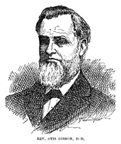 Rev. Otis Gibson, D.D.